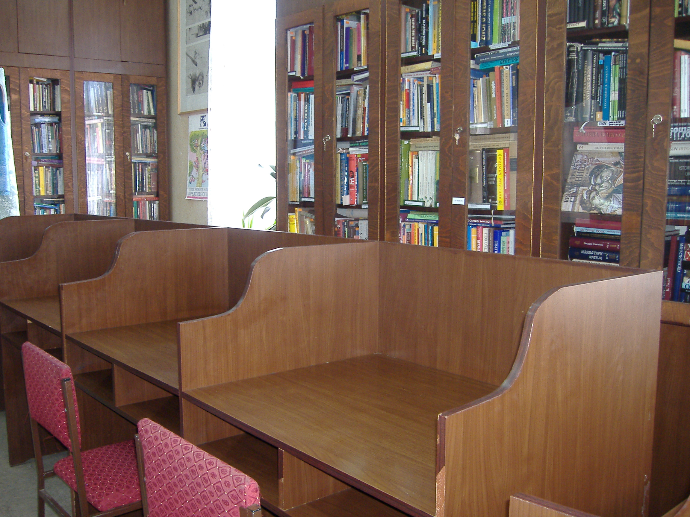 Public library Dusan Matic - reading room